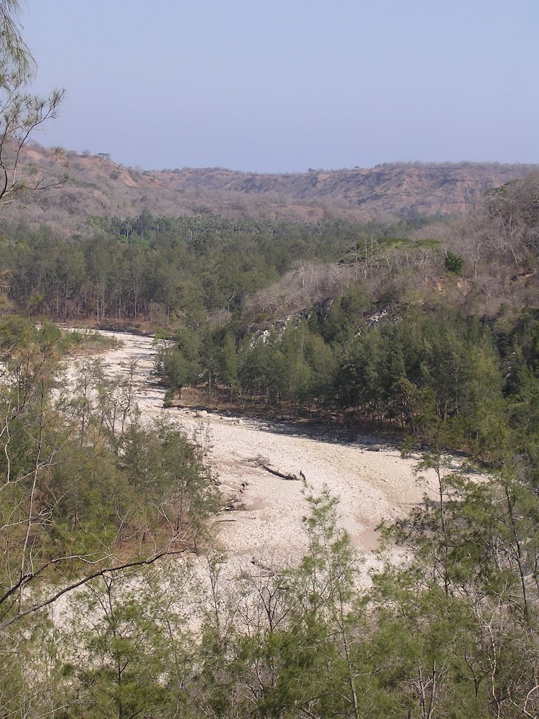 Casuarina forest pattern in late dry season along Laivai River valley, Lautem, Timor-Leste